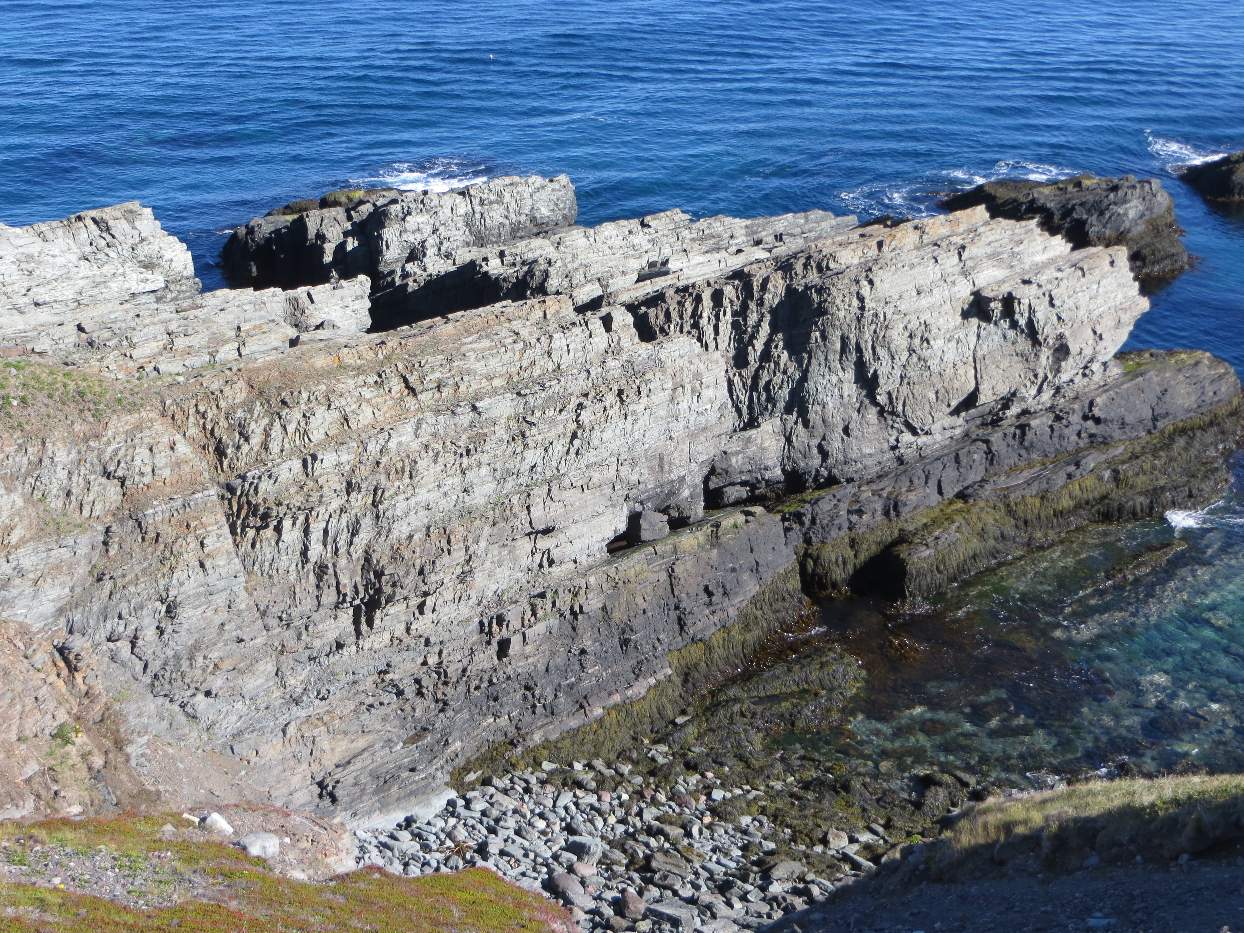 Ediacaran-Cambrian boundary section at Fortune Head, NL, containing the GSSP level, on a rare sunny day